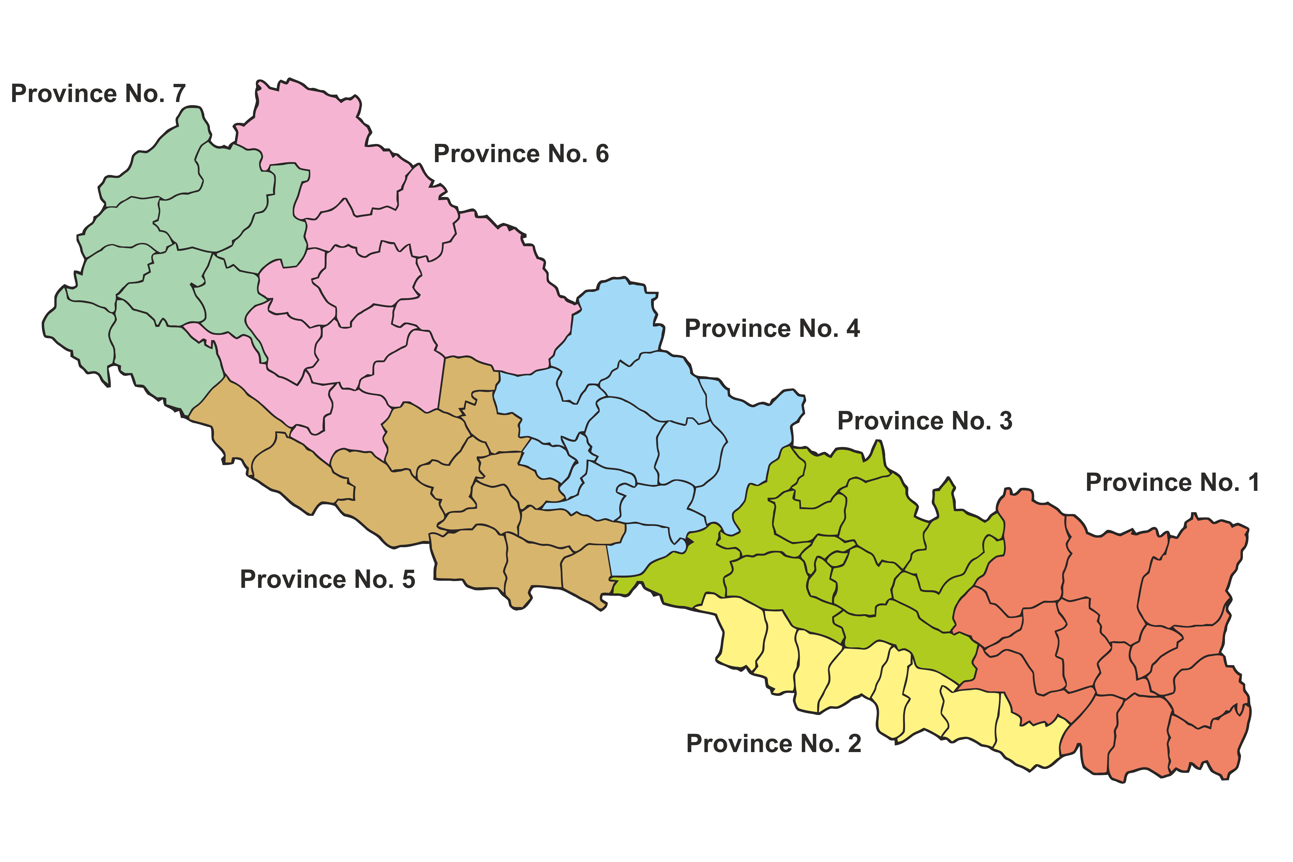 Provinces of Nepal according to the Schedule 4 to the Constitution of Nepal, 2015